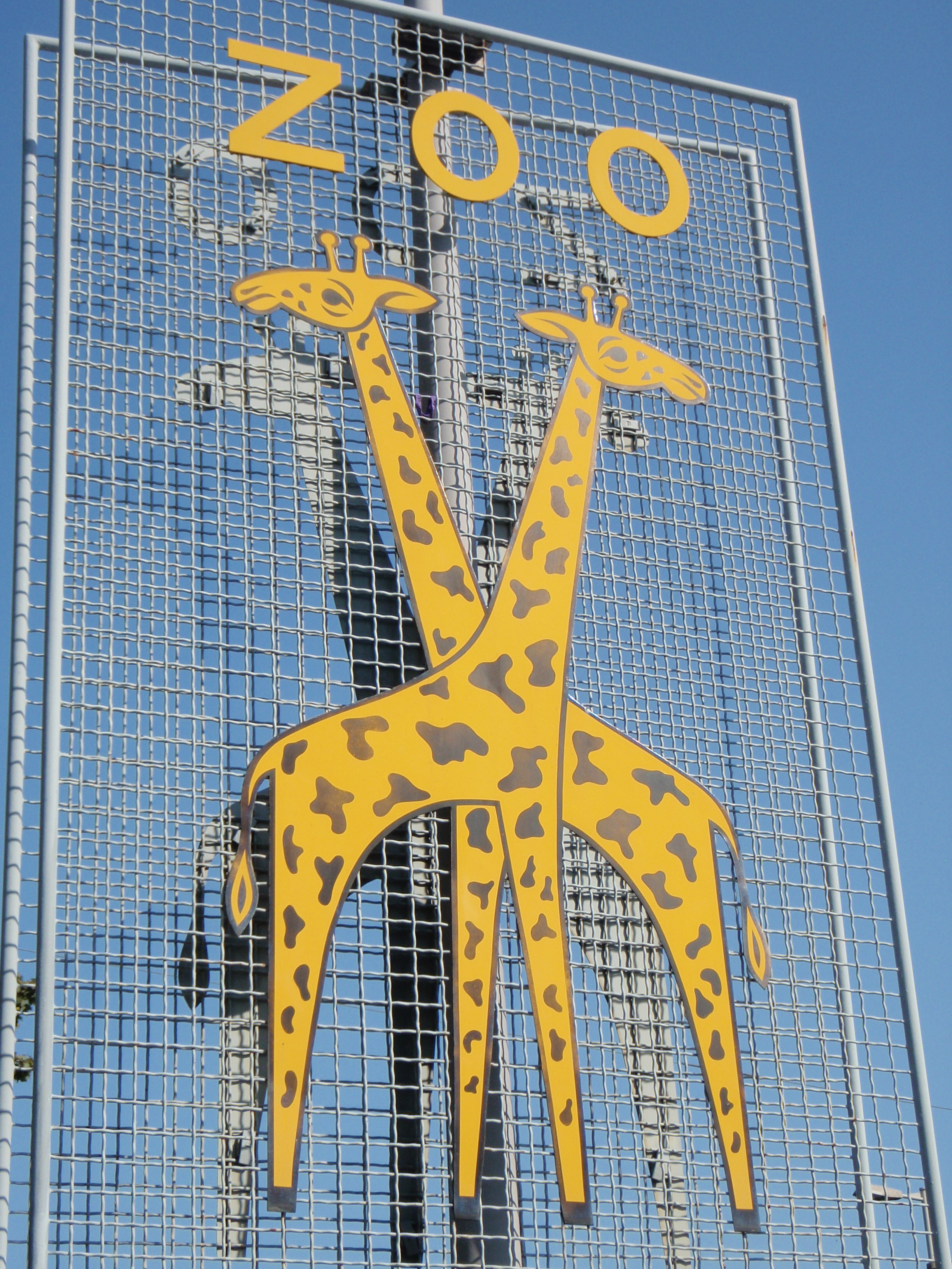 Zolli logo at South entrance